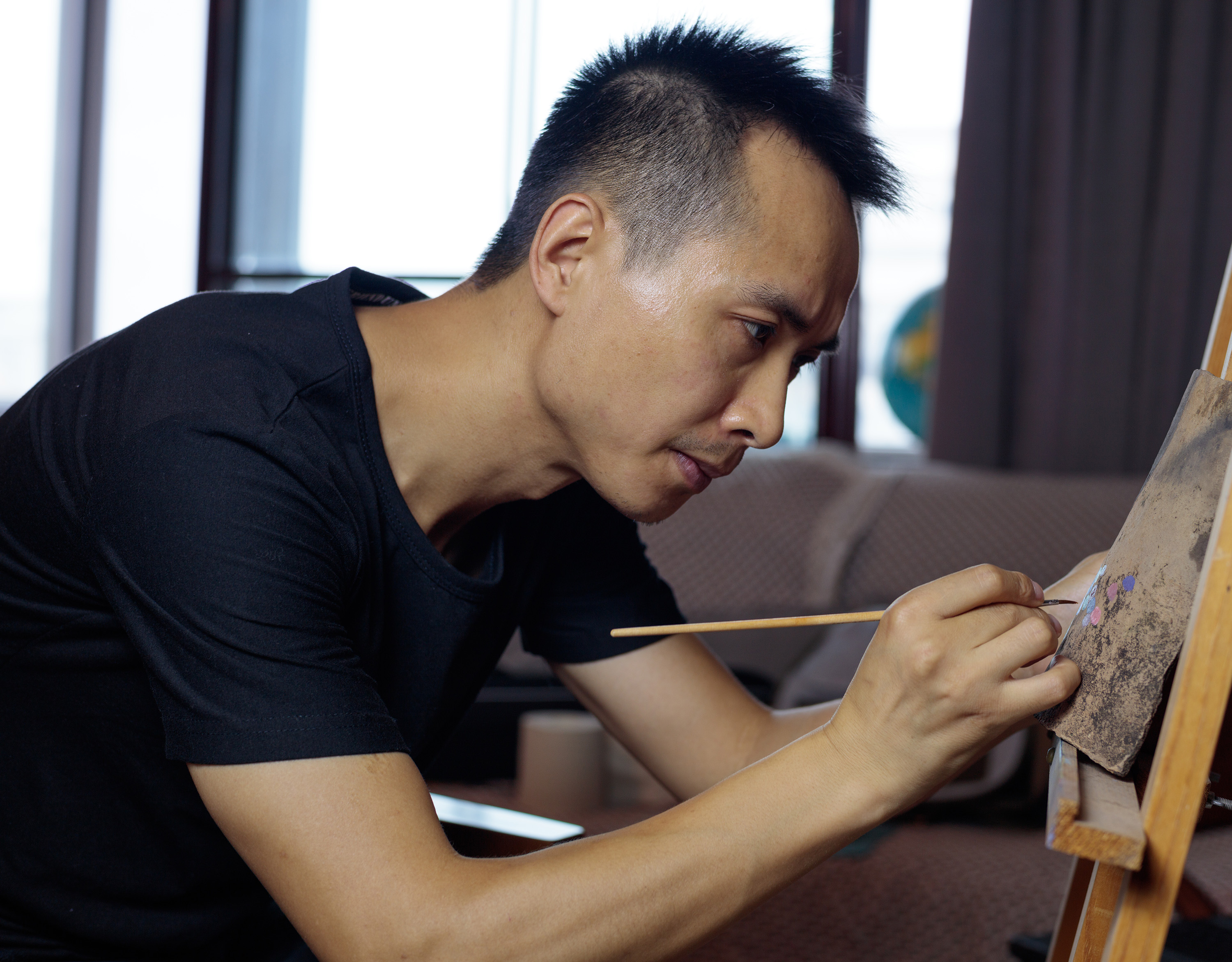 A portrait of the artist.